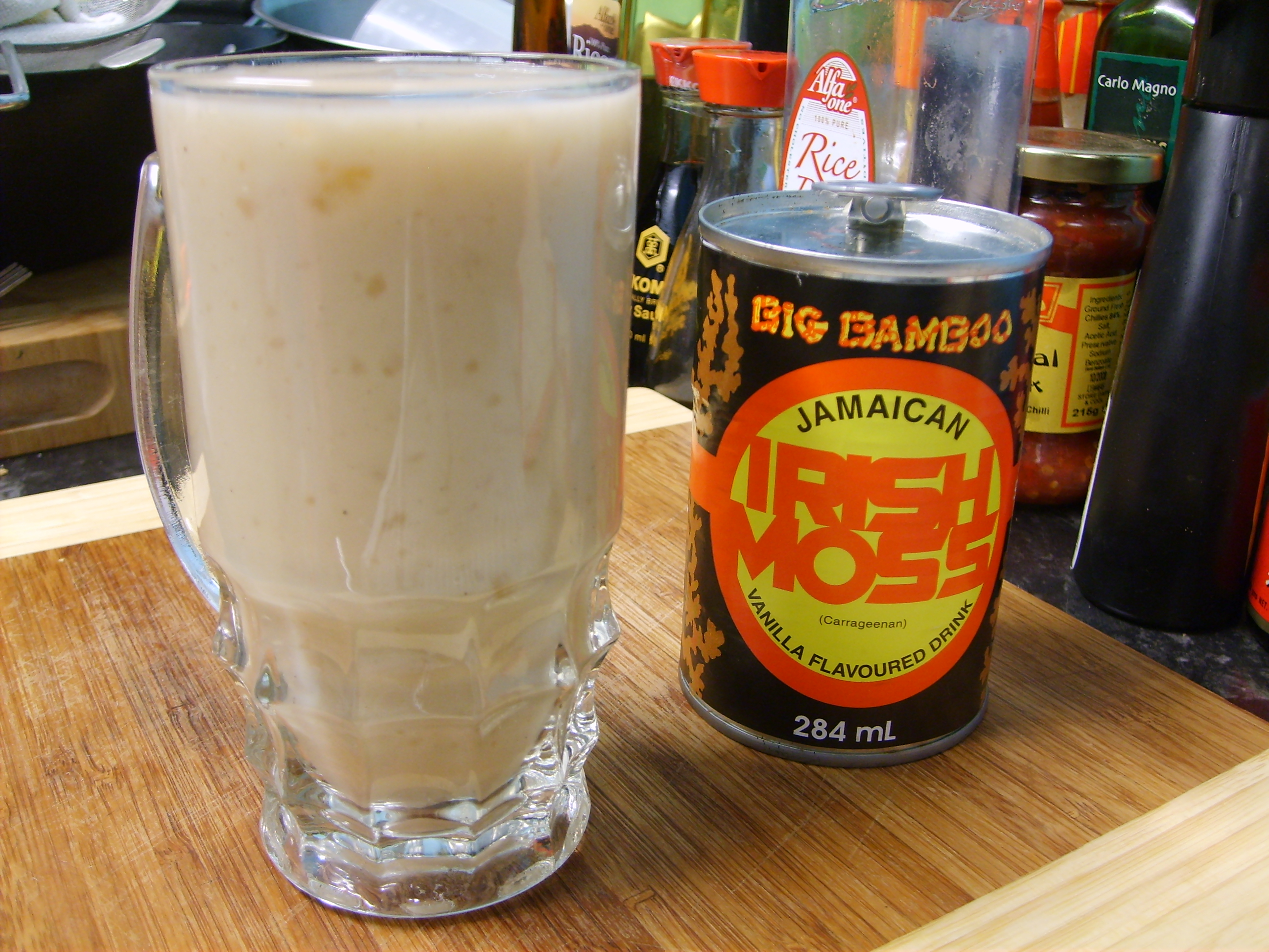 A mug and can of Big Bamboo Irish Moss (Carrageenan) Vanilla Flavoured Drink from Jamaica. Photo taken in the photographer's kitchen in Coventry, England, with a Samsung digital camera.